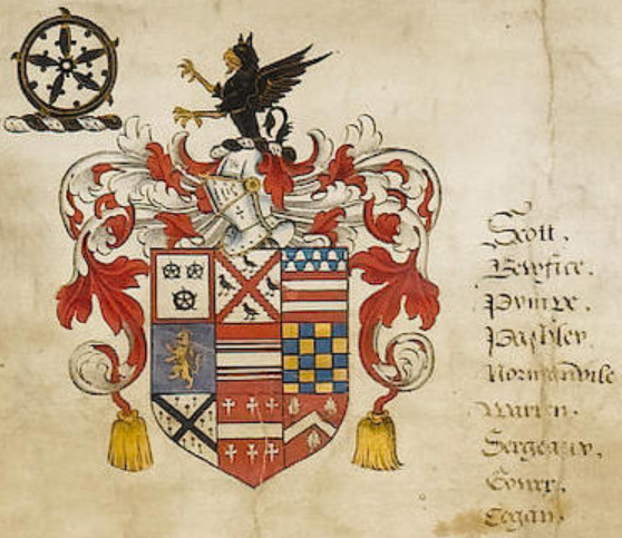 Coat of arms of Sir John Scott (1570-1616) of Nettlestead Place, MP, detail from an illuminated pedigree commissioned by himself. Quarterly of 9: 1: Scott: Argent, three Catherine Wheels of five spokes sable a bordure gules 2: Beaufitz ("Bewfice"): Argent, a saltire engrailed gules between four ravens proper, for Agnes Beaufitz (d.1486/7), daughter and co-heiress of William Beaufitz of The Grange, Gillingham, Kent, and wife of Sir John Scott (c. 1423 – 1485) of Scot's Hall. These arms appear higher up the illuminated pedigree impaled by Scott on the shield of Sir John Scott (c. 1423 – 1485). 3: Pympe Gules, two bars argent a chief vair 4: Pashley Purpure, a lion rampant tail forked and nowed or crowned argent ( 5: Normanvile: Gules, a fess double cotised argent 6: de Warrenne, Earl of Surrey: Checquy or and azure 7: Sergeaux (Sergea..y): Ermine, a saltire sable 8: Gower: Gules, a fess between six cross crosslets argent 9: Cogan, feudal barons of Bampton in Devon: Gules, a chevron between three leaves argent Crest: A demi-griffin sable; With second crest of Scott above left: A Catherine Wheel of five spokes sable. Per Joan Woodville (c.1410-1453) (aunt of Queen Elizabeth Woodville), daughter of Richard Woodville and his wife Joan Bedlisgate (Bittlesgate), married Sir John Pashley (c.1406-1453) (son of Sir Robert Pashley and Phillippa Sergeaux). She had issue as follows: Sir John Pashley (born c.1431), who married Lowys Gower.